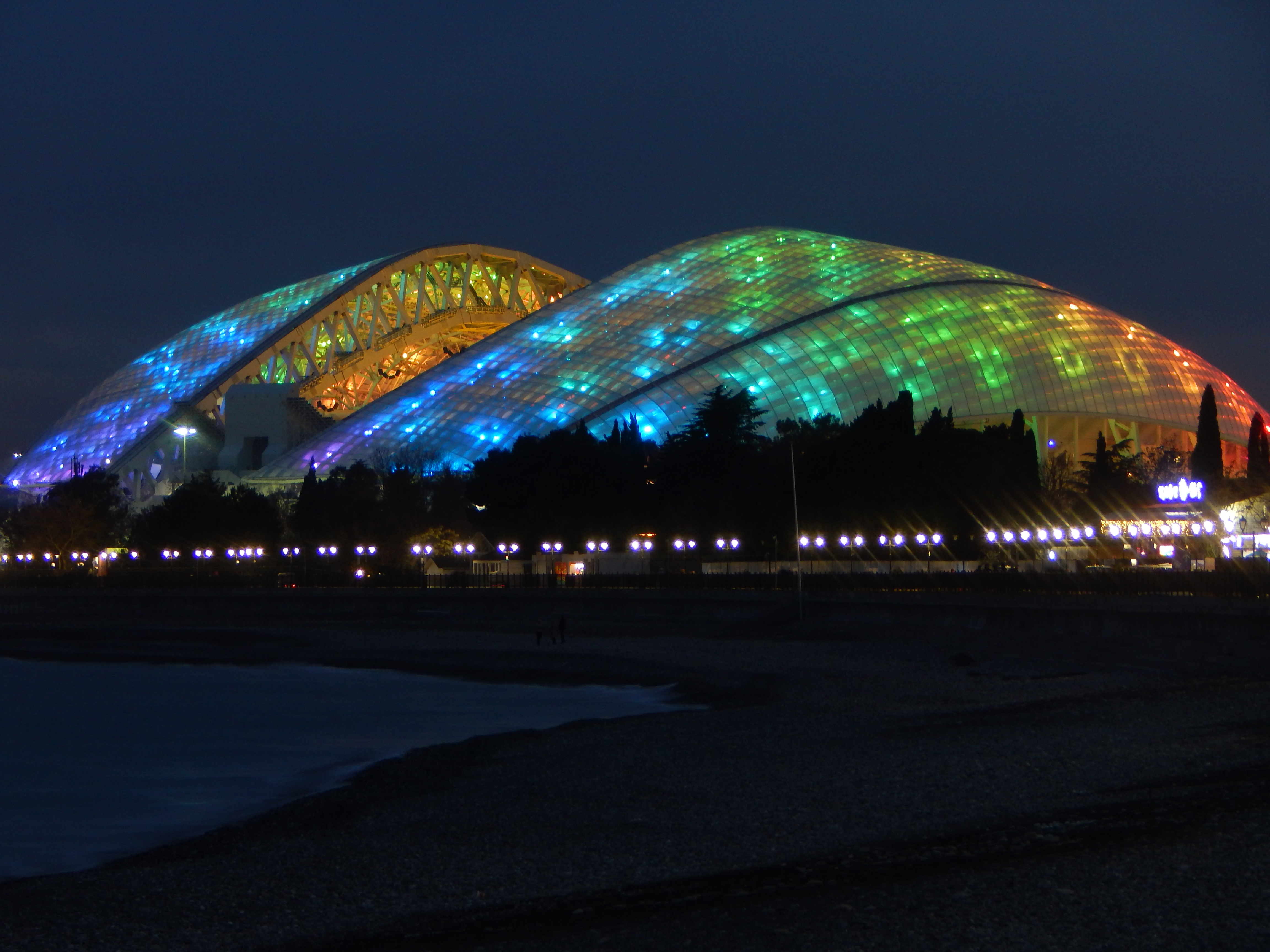 Fisht Olympic Stadium on the evening of 11 January 2018